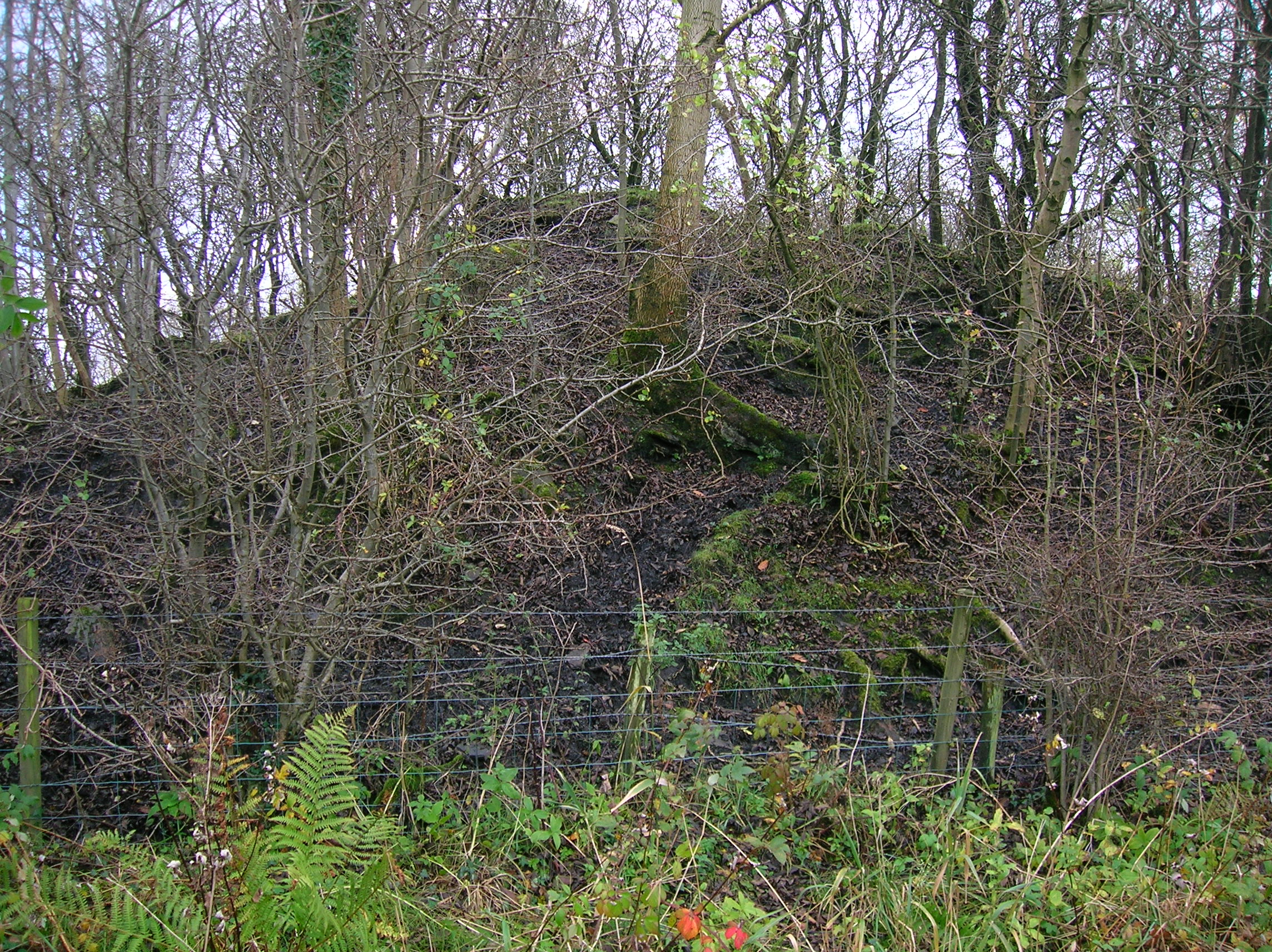 Fergushill no 22, Diamond Pit, Kilwinning, North Ayrshire, Scotland